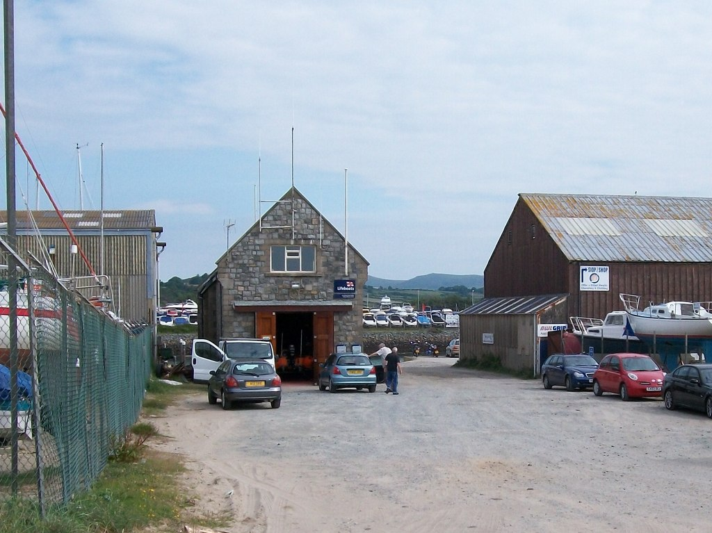 Gorsaf Bad Achub Pwllheli Lifeboat Station, Data from Geograph: Description: SH3834 :: Gorsaf Bad Achub Pwllheli Lifeboat Station, near to Pwllheli, Gwynedd, Great Britain ICBM: 52.882442801308, -4.4031689039663 Location: (about 1 km from) near to Pwllheli, Gwynedd, Great Britain.